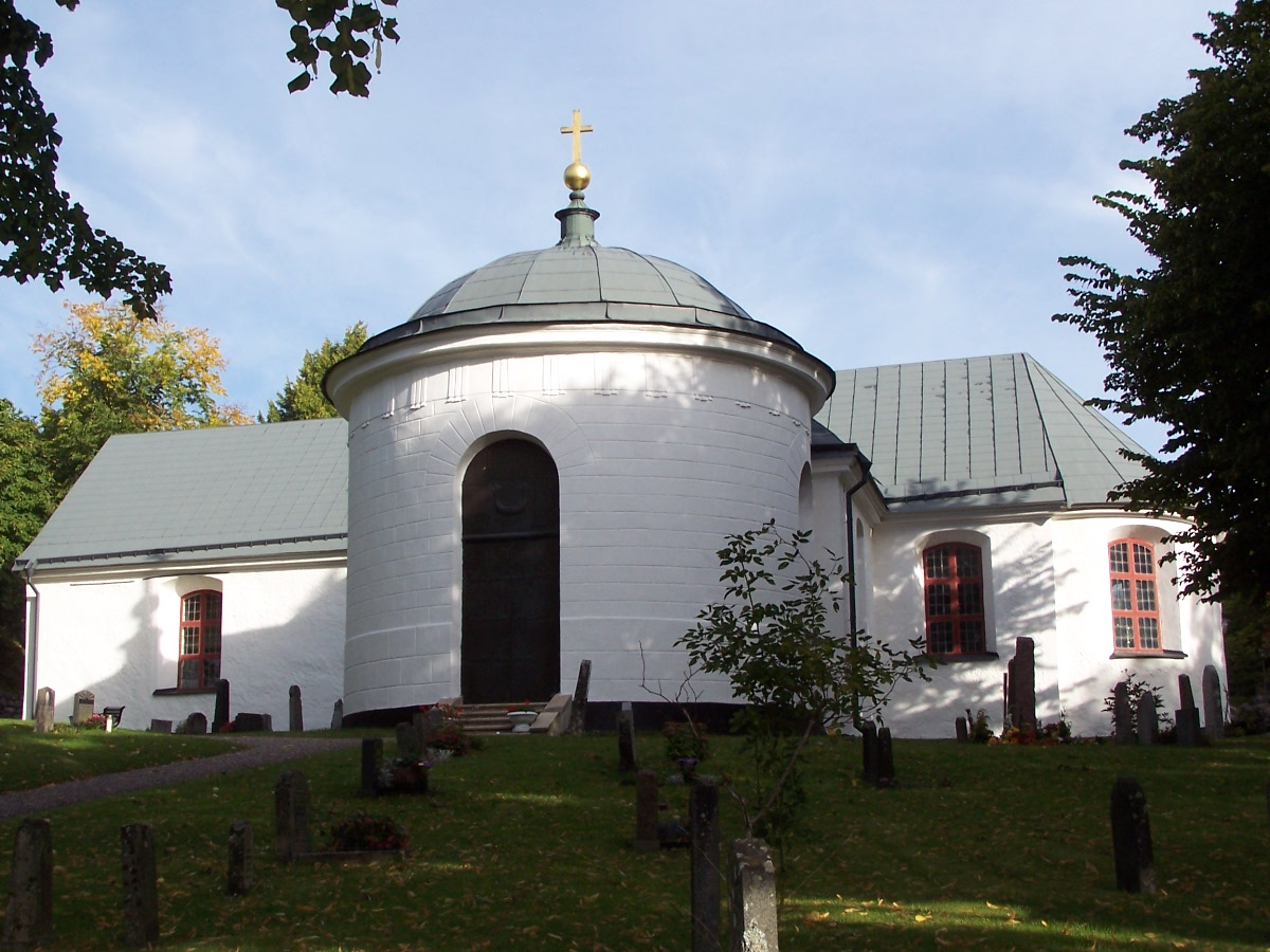 Mörkö church, Sweden